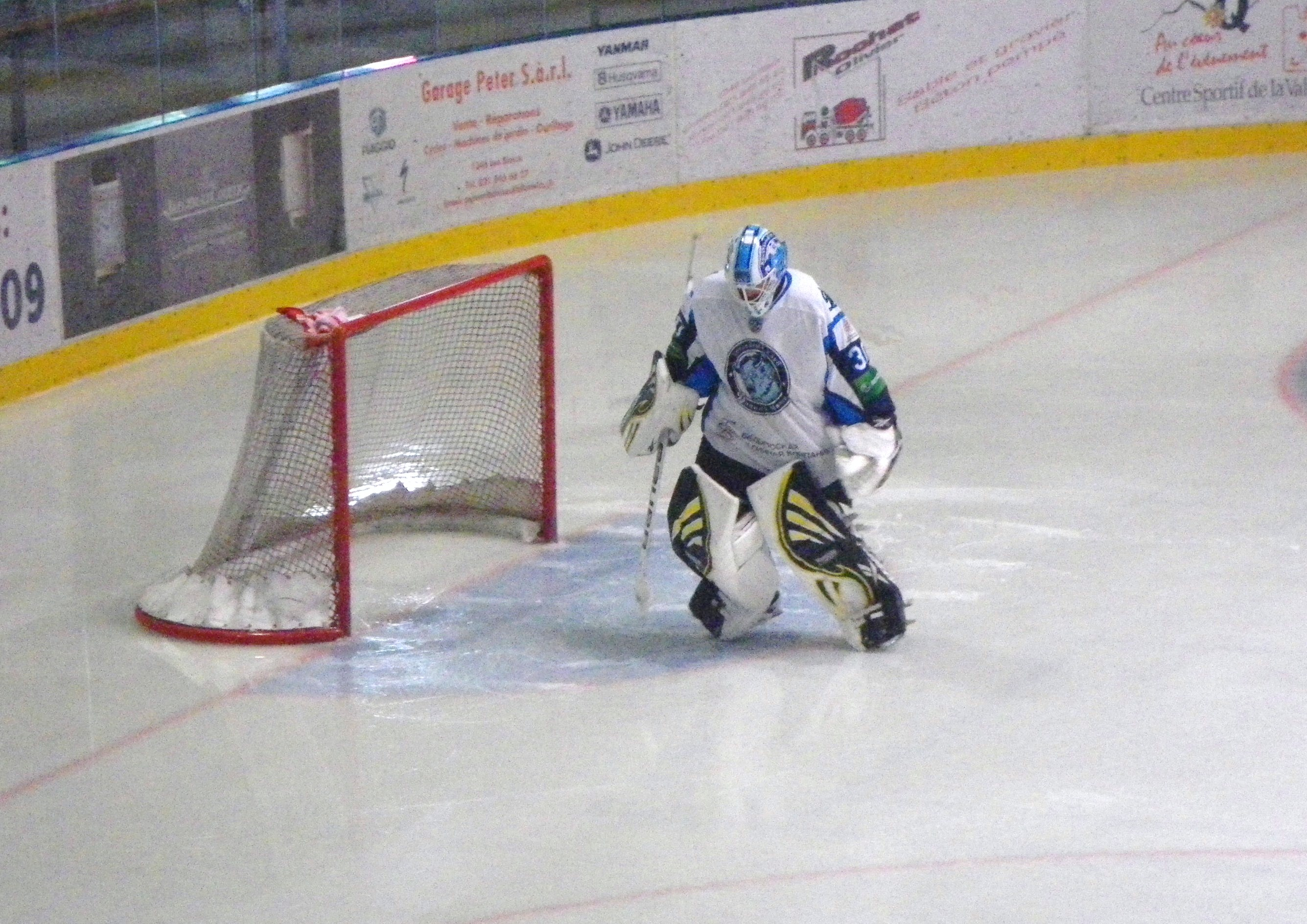 Lars Haugen, norvegian ice hockey player with Dinamo Minsk.